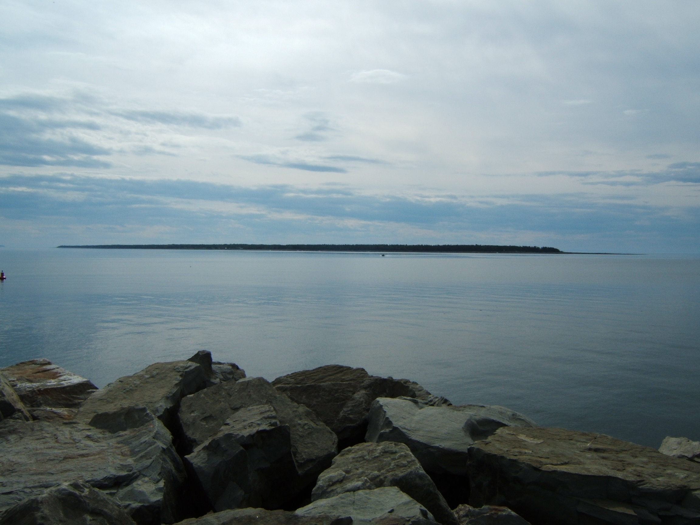 The St.Barnabe Island in front of the city of Rimouski.